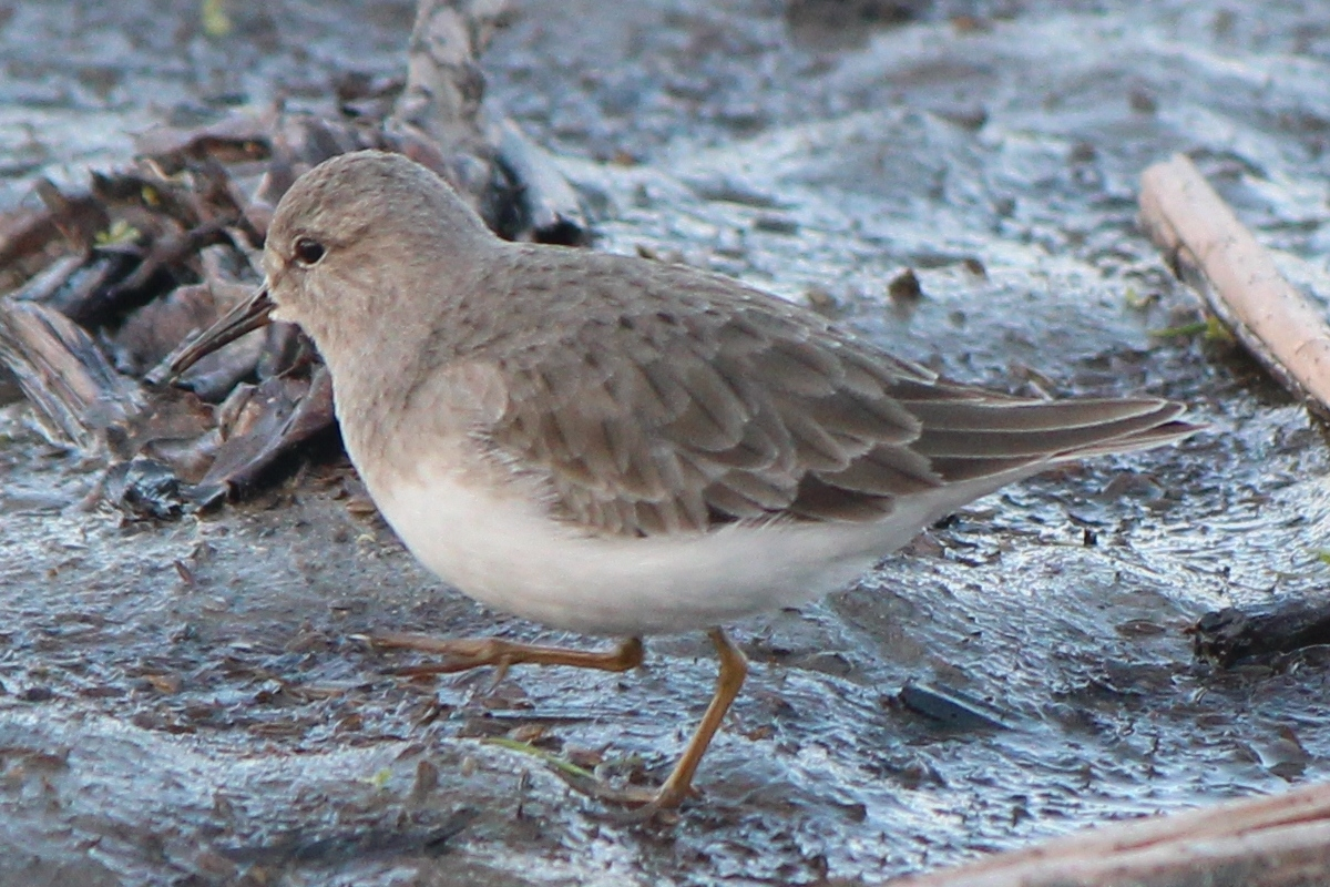 Calidris temminckii (Temminck's Stint), winter plumage, walking in Japan.